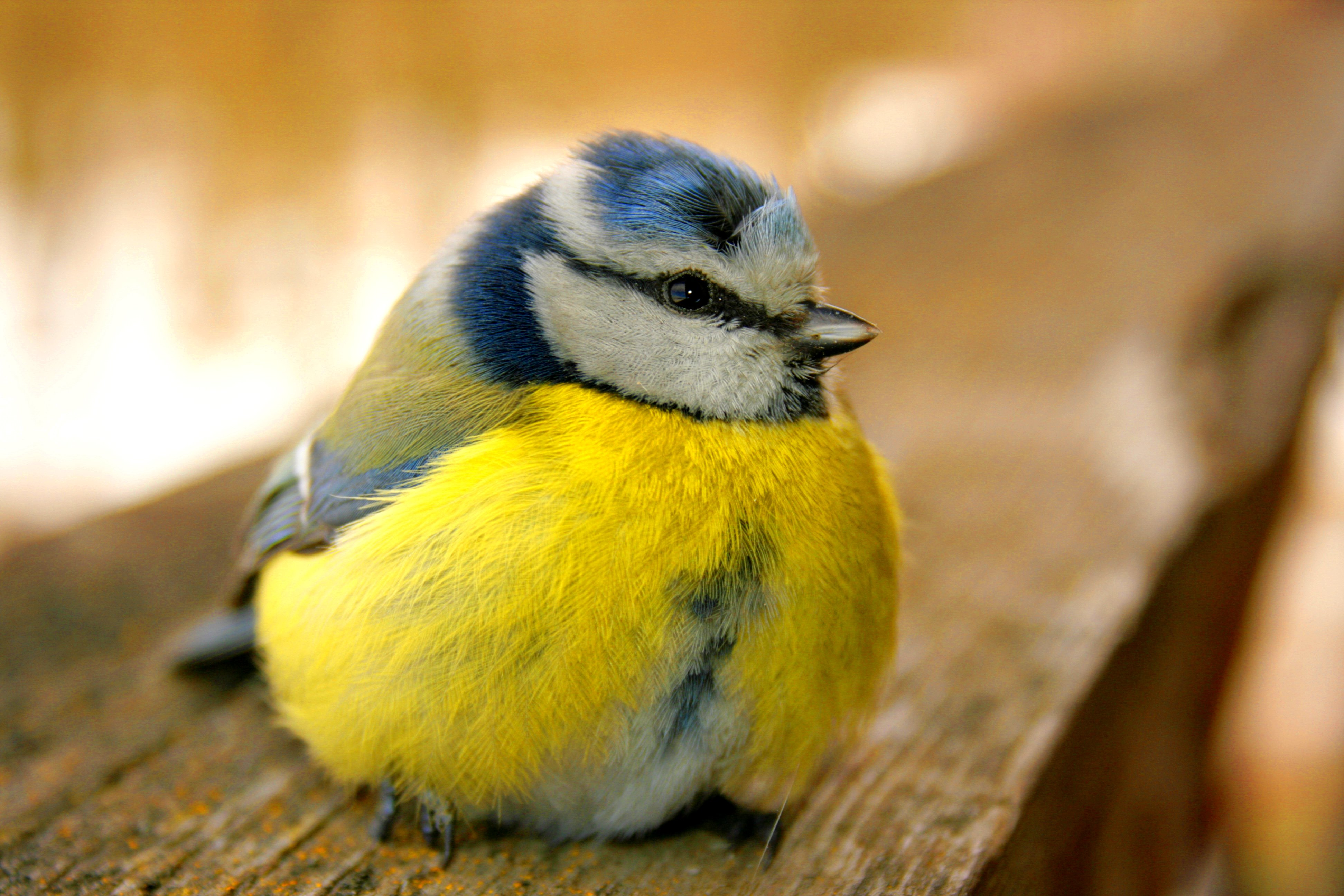 Blue tit in Simuna Lääne-Viru County Estonia.